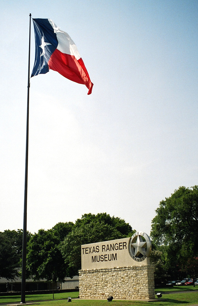 Sign in front of the Texas Ranger Hall of Fame and Museum Waco, Texas, United States.